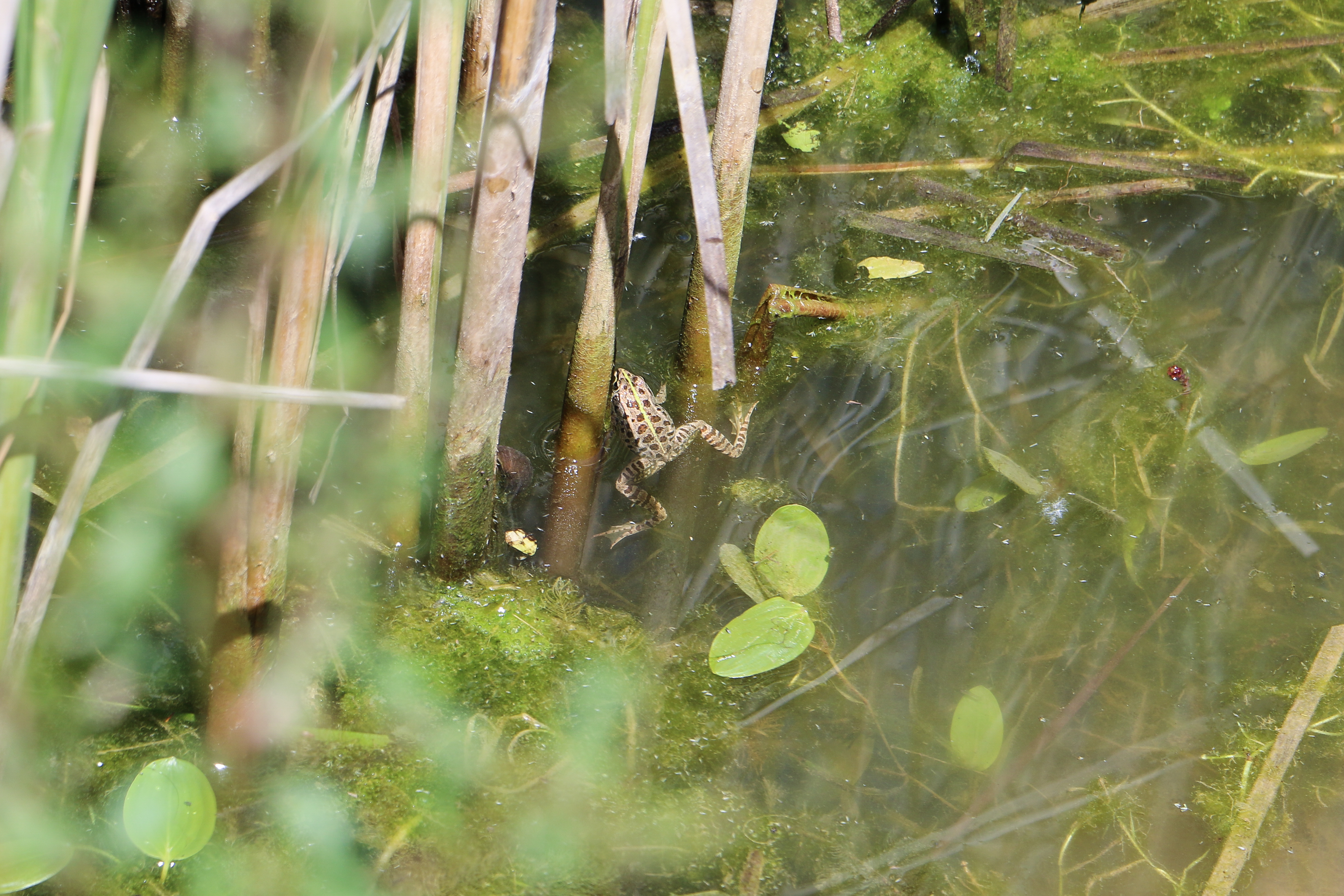 Pelophylax kurtmuelleri This is a photography of Natura 2000 protected area with ID GR2530002